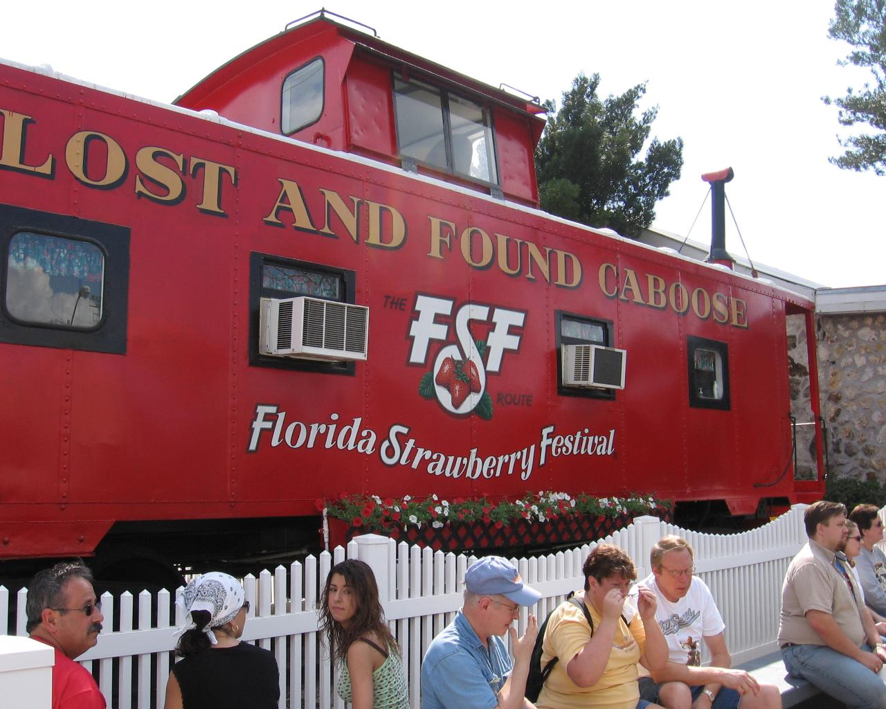 Lost & Found caboose at the Florida Strawberry Festival.